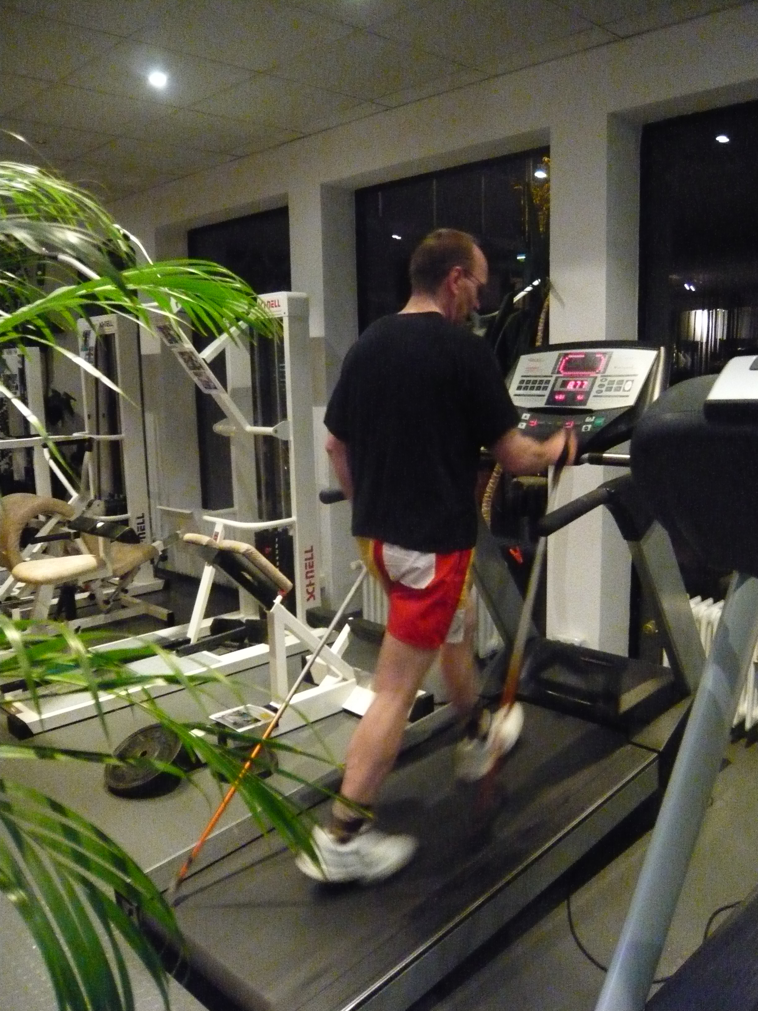 Nordic walking on a treadmill in a health club in Nürnberg, Germany